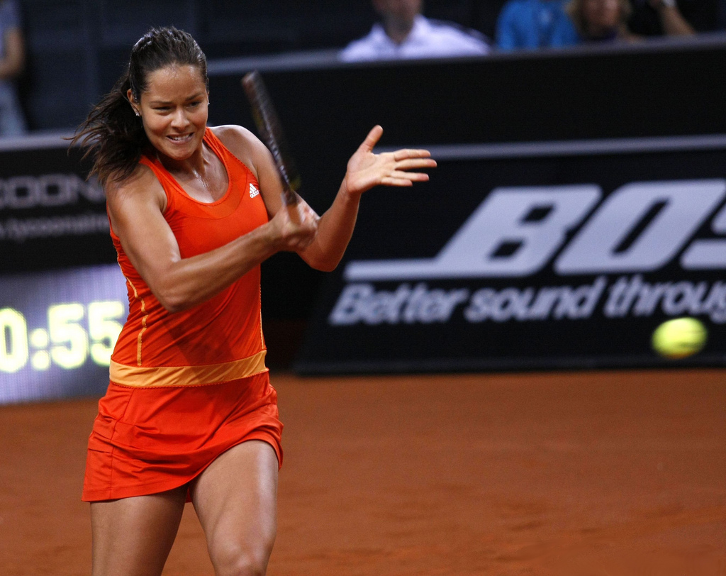 Ana Ivanovic of Serbia strikes a forehand during her first round match against Agnieszka Radwanska of Poland at the Porsche Tennis Grand Prix. Radwanska won the match 7.6(4), 6.4. April 27, 2010, Stuttgart.